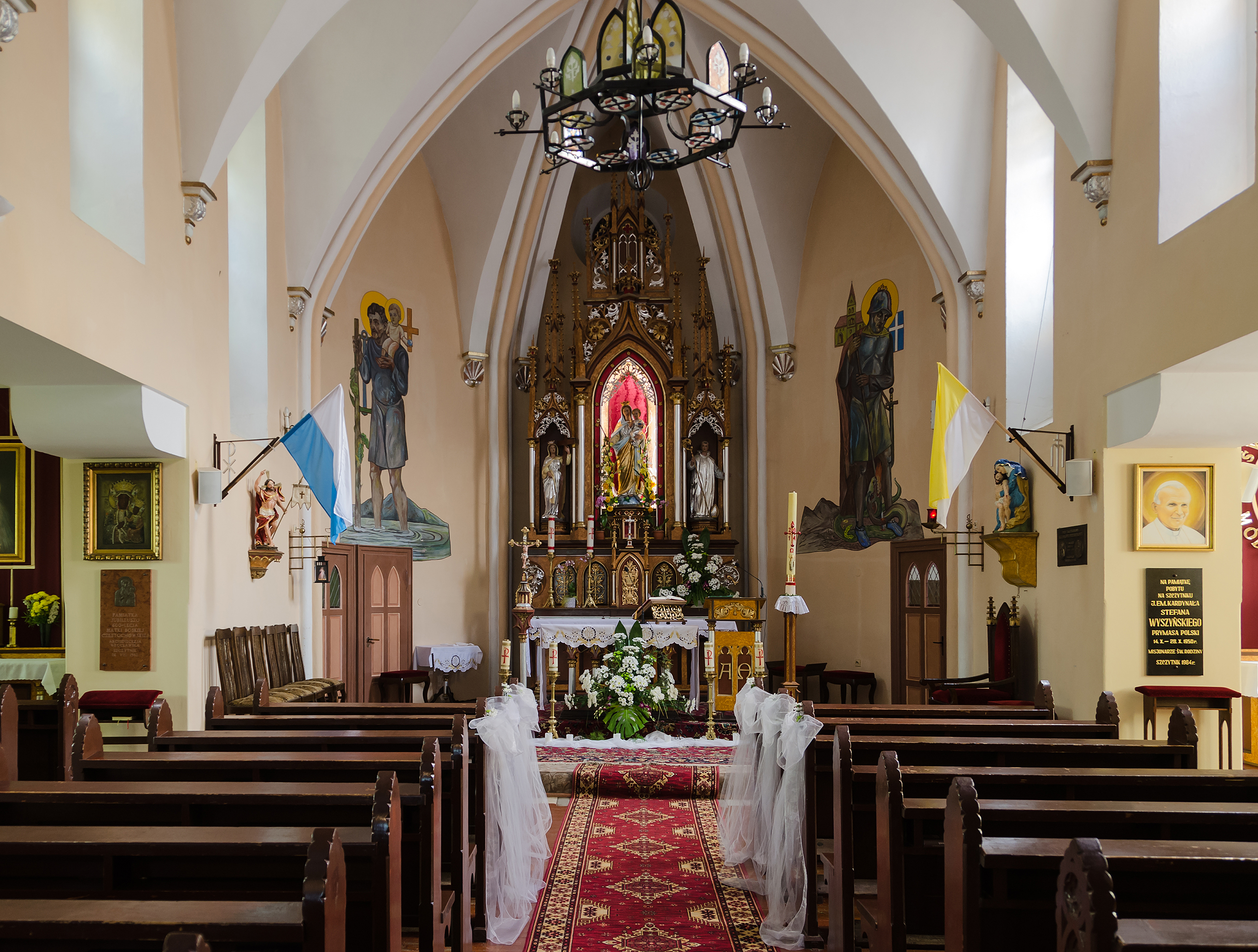 Leśna castle in Szczytna, interior of the castle chapel